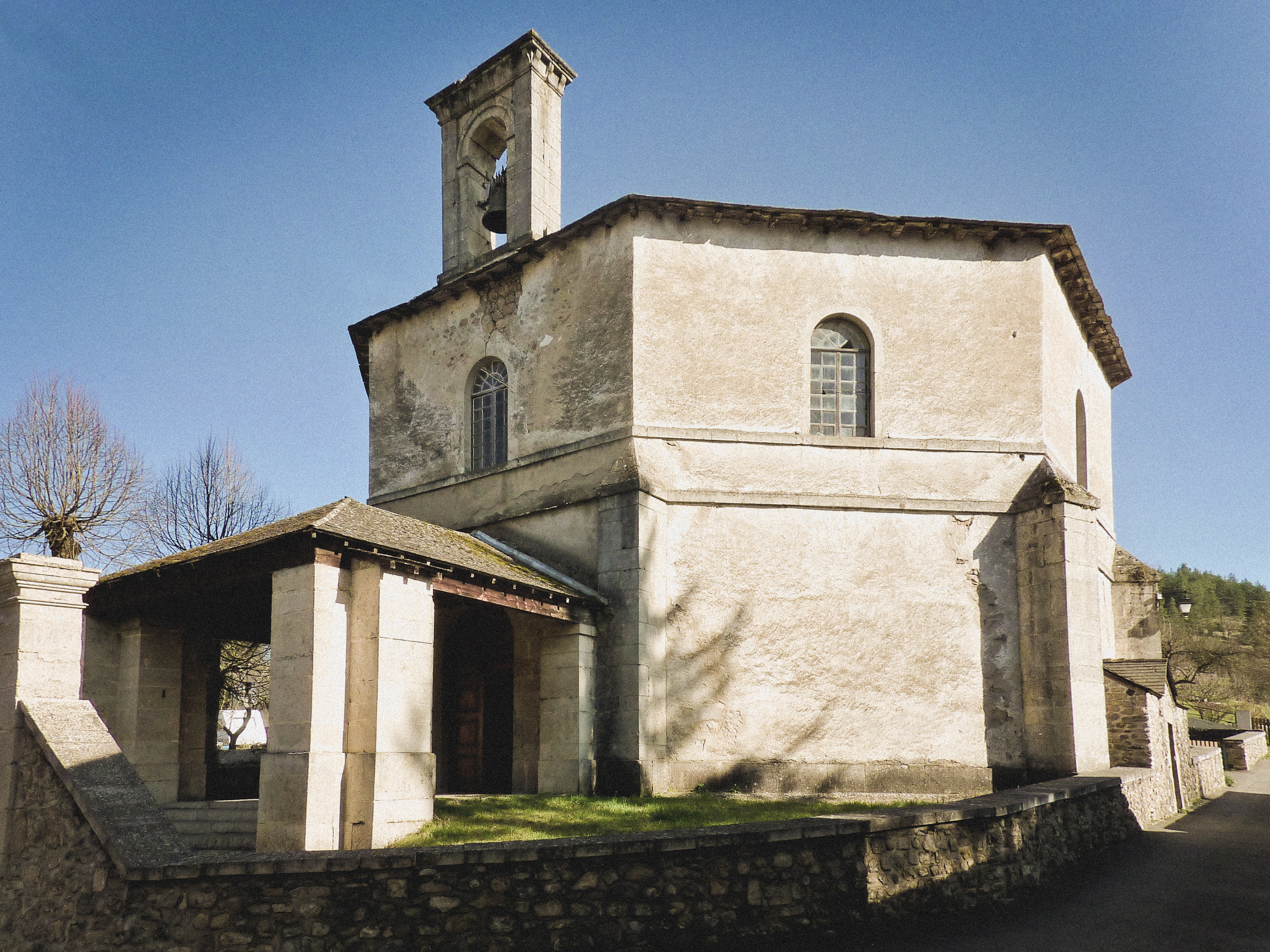 View from the street